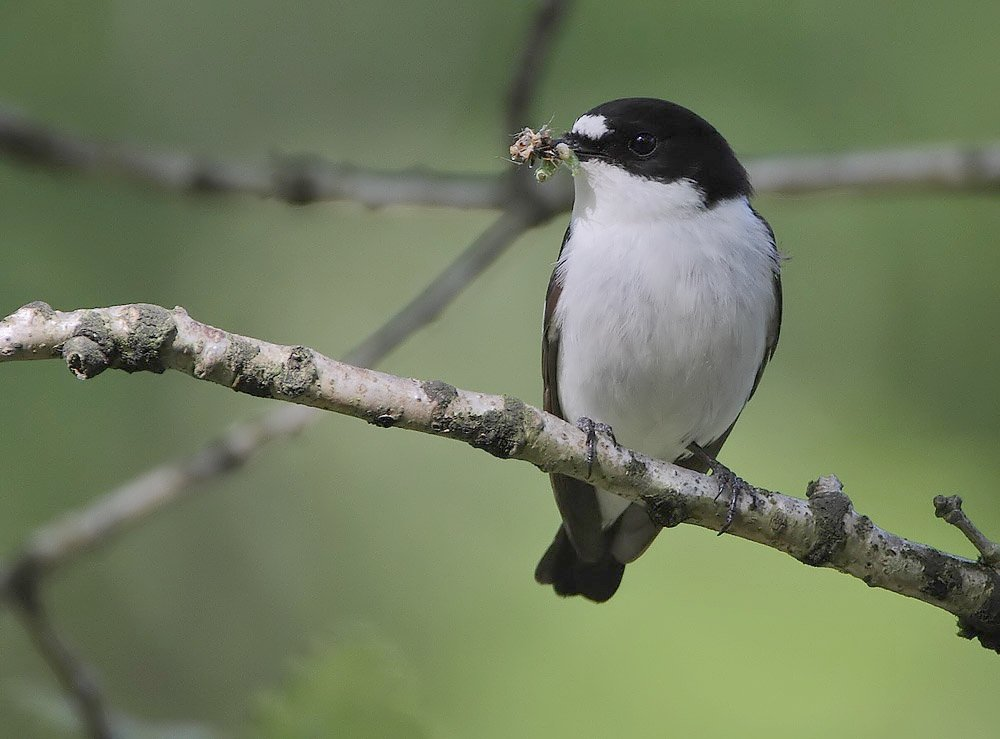 An adult male collecting insects for an early brood. Image taken in Atlantic Oak forest at Inversnaid, Loch Lomond, Scotland.